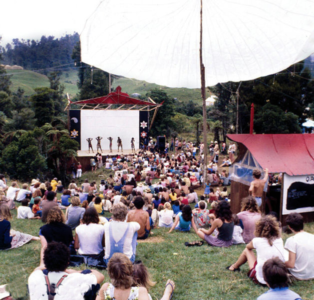 Image (photograph) taken by Official Nambassa Photographer and uploaded by User:Mombas 14:06, 4 May 2007 (UTC) , Nambassa dot com Terms of Use: 1/ All users of this image are required to attribute this work to "Nambassa Trust and Peter Terry" and the url: " " is to accompany all use. 2/ Attribution. You must attribute the work in the manner specified by the author or licensor. 3/ For any reuse or distribution, you must make clear to others the license terms of this work. Statement by Nambassa Trust and Peter Terry